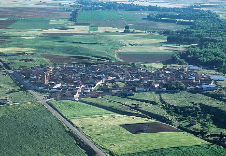 Aerial photography of Melgar de Abajo